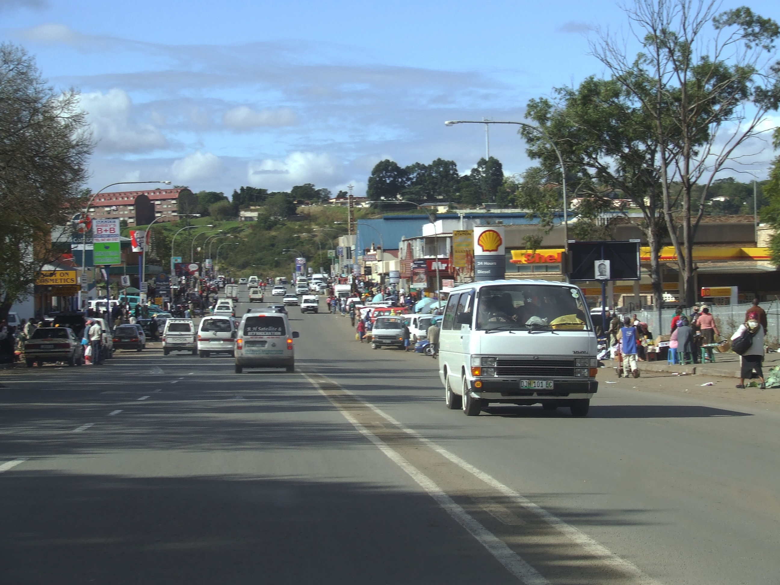 Michael Kritzinger and I had interesting hour or two here during our previous visit to town on Wednesday 13th September 1995